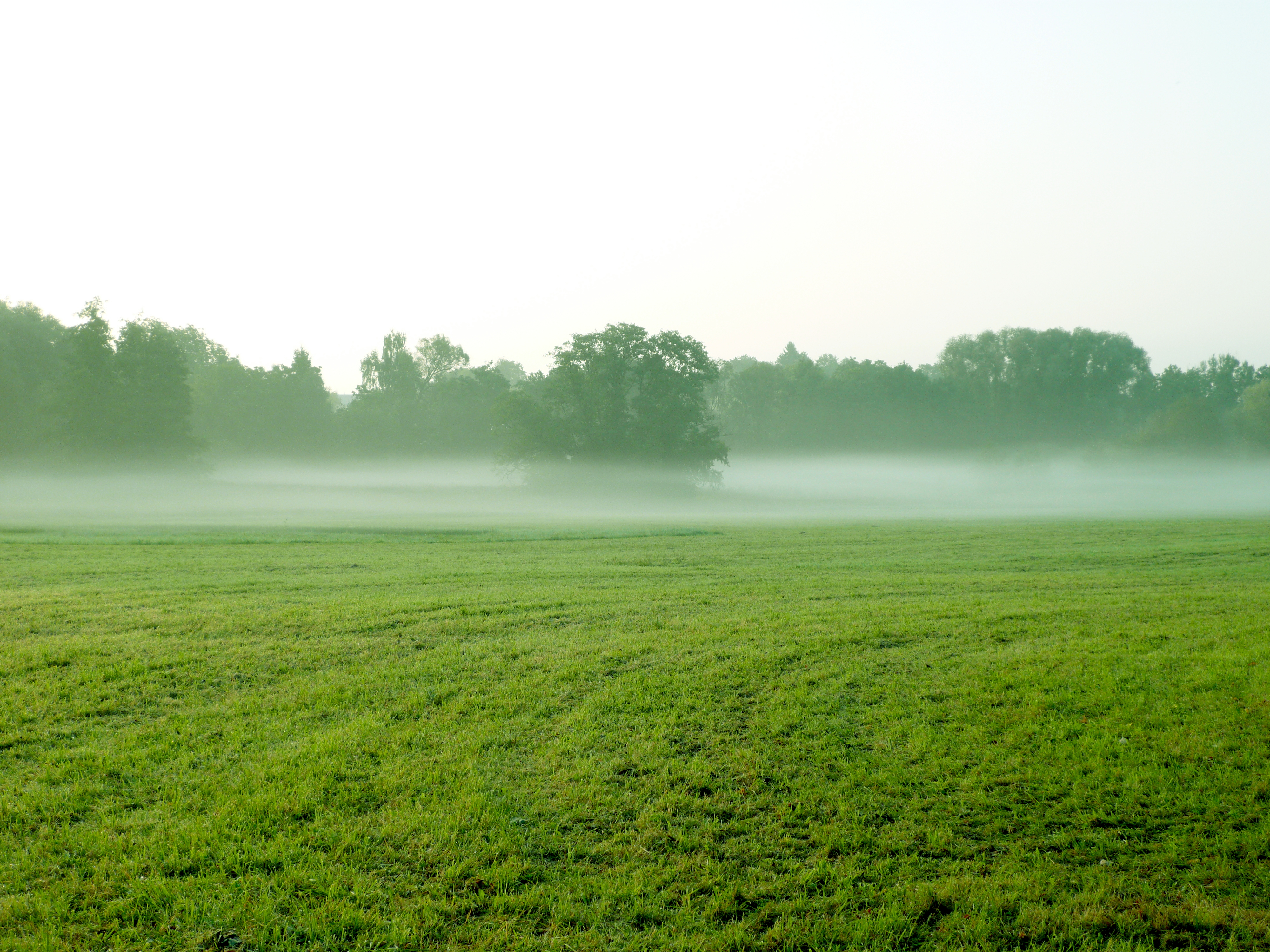 Mist on a meadow